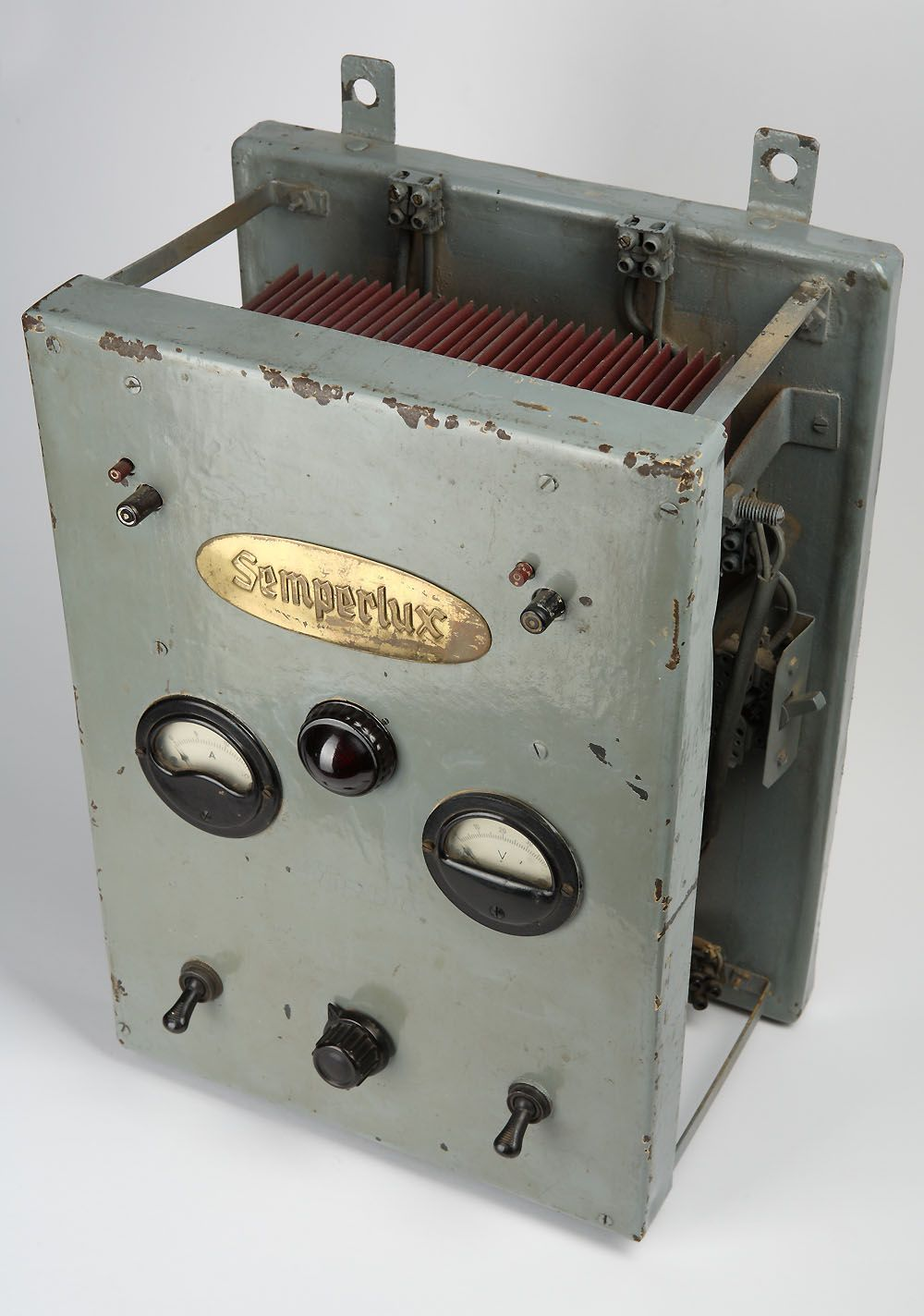 Semperlux Batterieladegerät (1948): Mit dem Gerät konnte man während der Berlin-Blockade Energie auf Vorrat laden.